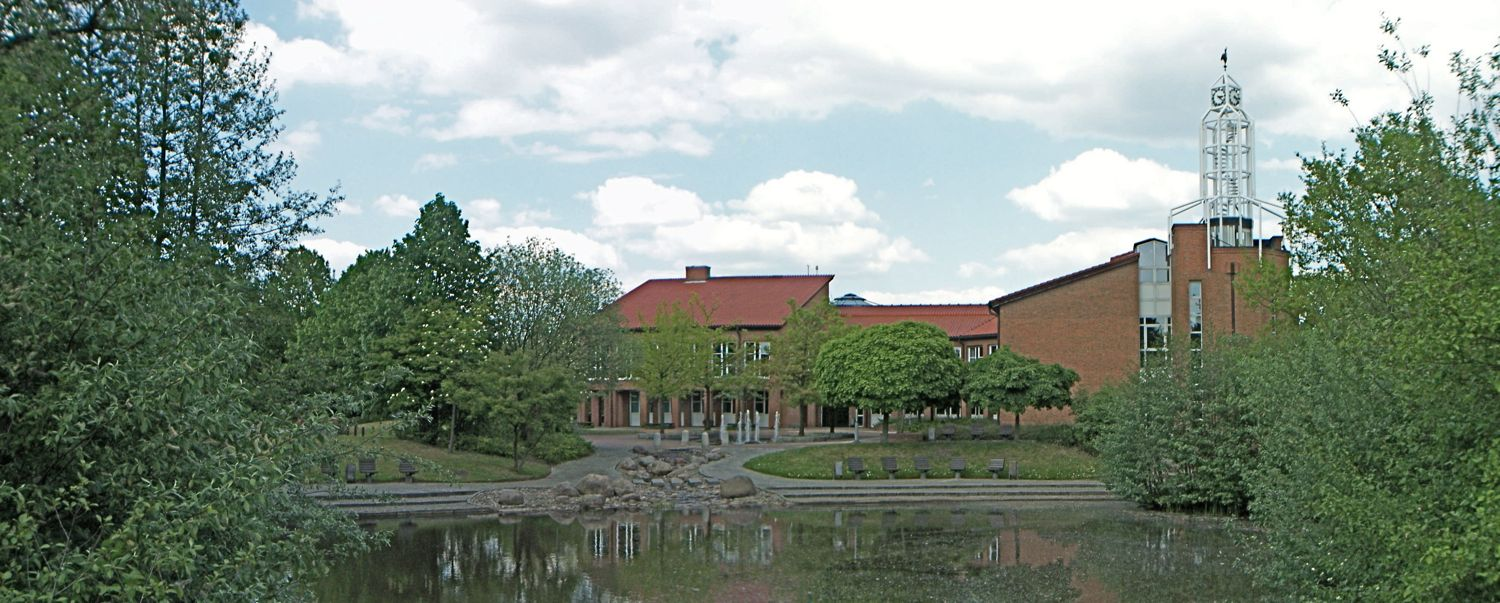 Town hall of the municipal Weyhe, Lower Saxony, Germany